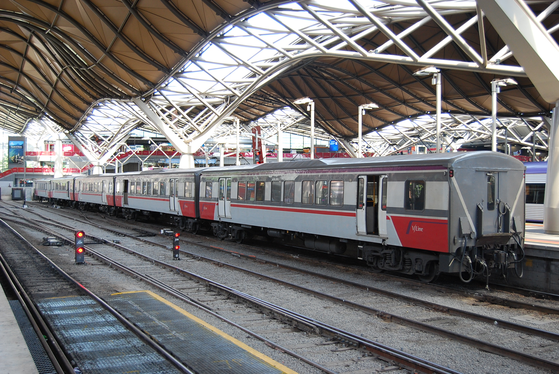 V/Line H set VSH28 at Southern Cross Station.